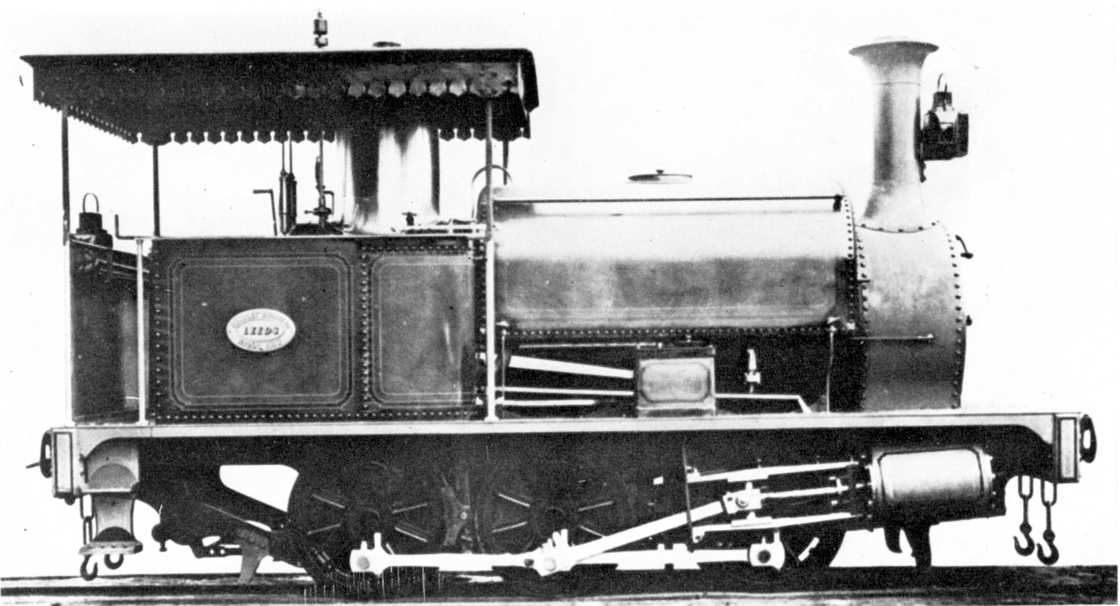 Natal Harbour Board "John Milne" (0-6-0ST)